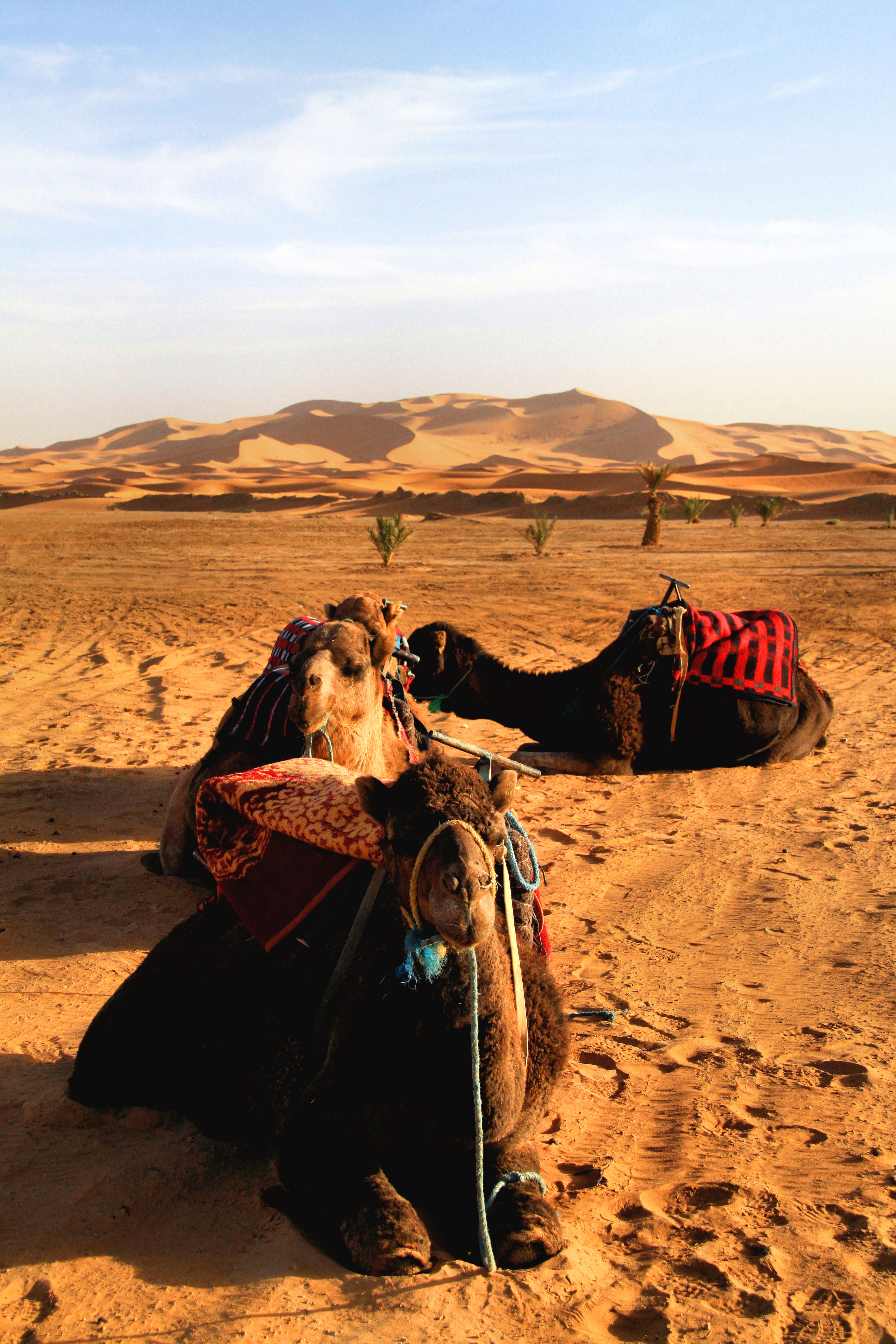 Camels that are used to trek the Erg Chebbi dunes.